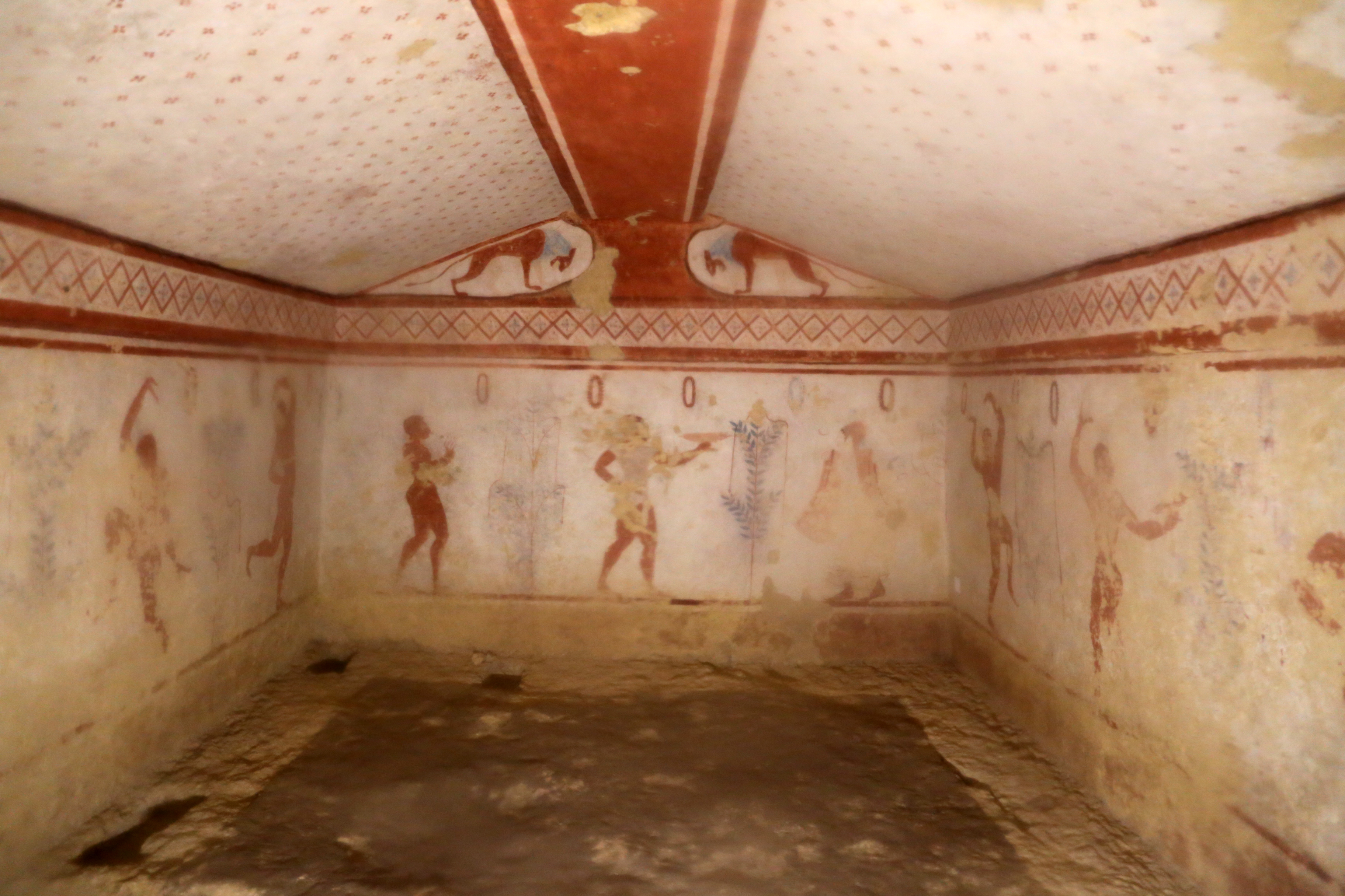 Necropoli dei Monterozzi (Tarquinia)